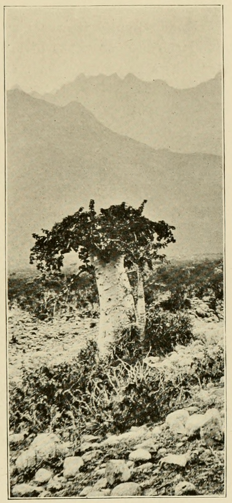 Dendrosicyos socotranus — Cucumber Tree. On and endemic to Socotra island, Yemen. 1898–99 photograph by Henry Ogg Forbes, from The Natural History of Sokotra and Abd-el-Kuri.